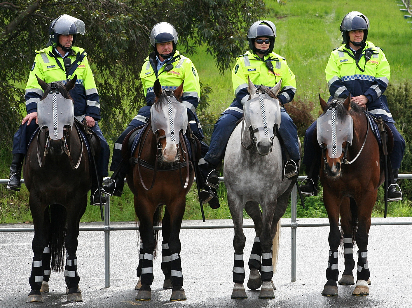 Mounted police officers on standby at a peaceful demonstration at Hazelwood Power Station, Victoria. Note the facial armour that the horses are equipped with. This protects the animals from any indirect projectiles or attempted assaults to the face. The horses are also equipped with rubber horseshoes (yellow), and protective sport boots with reflective tape to aid visibility. The officers are wearing high visibility rain coats, as well as riot protection helmets to protect against both accidentally falling off or melee weapons and thrown projectiles.